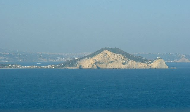 Cape Miseno from Procida - photo by utente:Retaggio